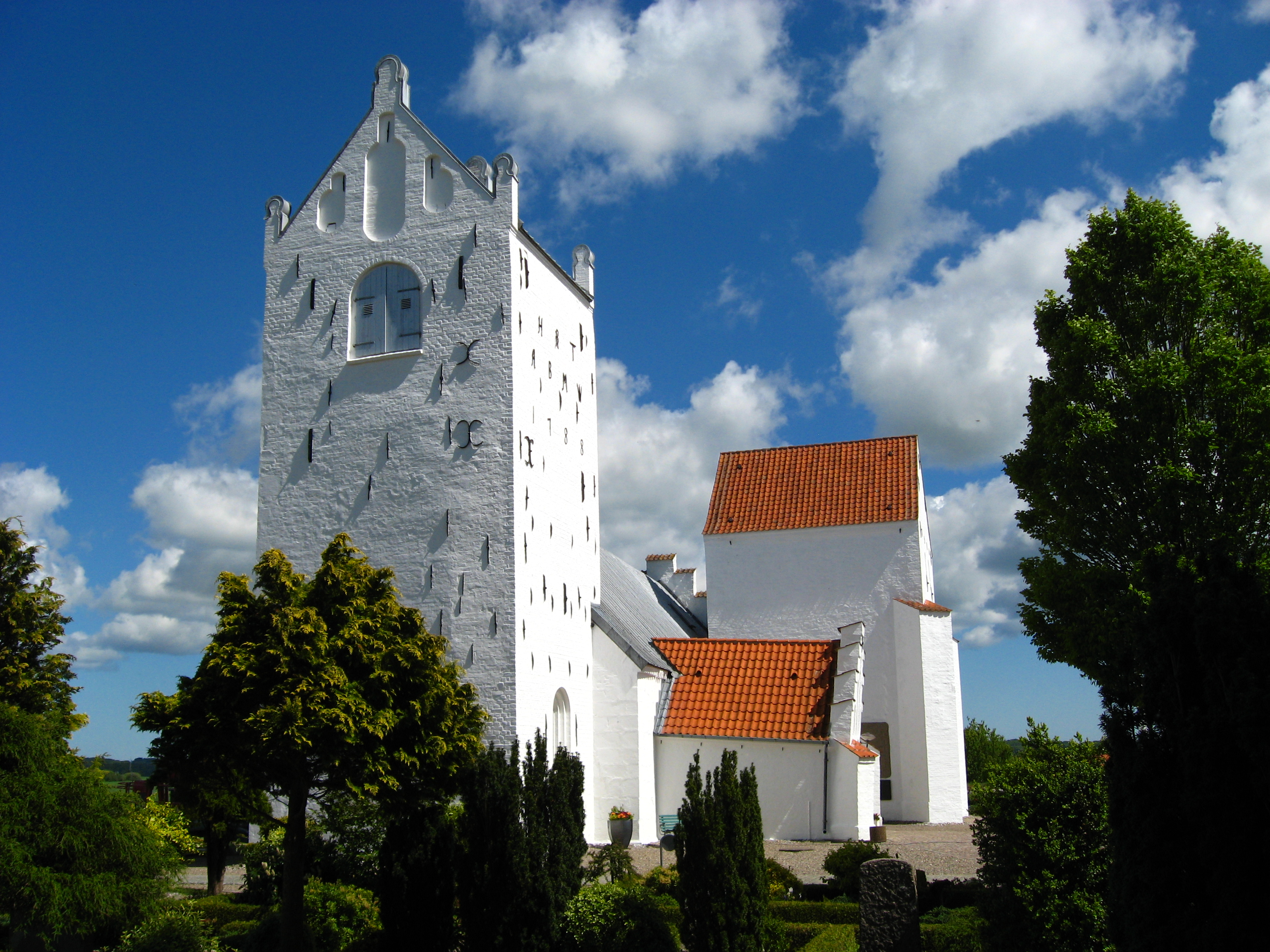 Voer Church of Voer-Agersted Municipality, Brønderslev-Dronninglund deaconry, Diocese Aalborg